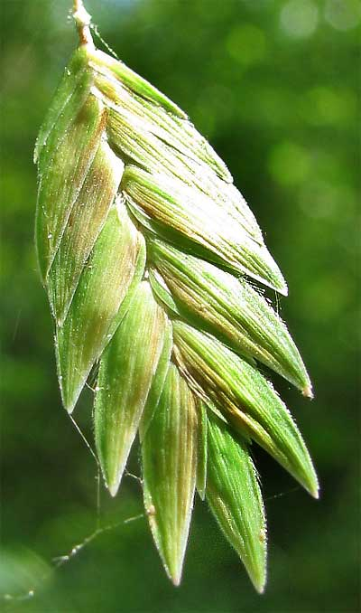 A spikelet from the grass species Chasmanthium latifolium (Wild Oats, etc..). There are 10 florets (the actual botanical flowers) and two glumes clearly visible at the very top.